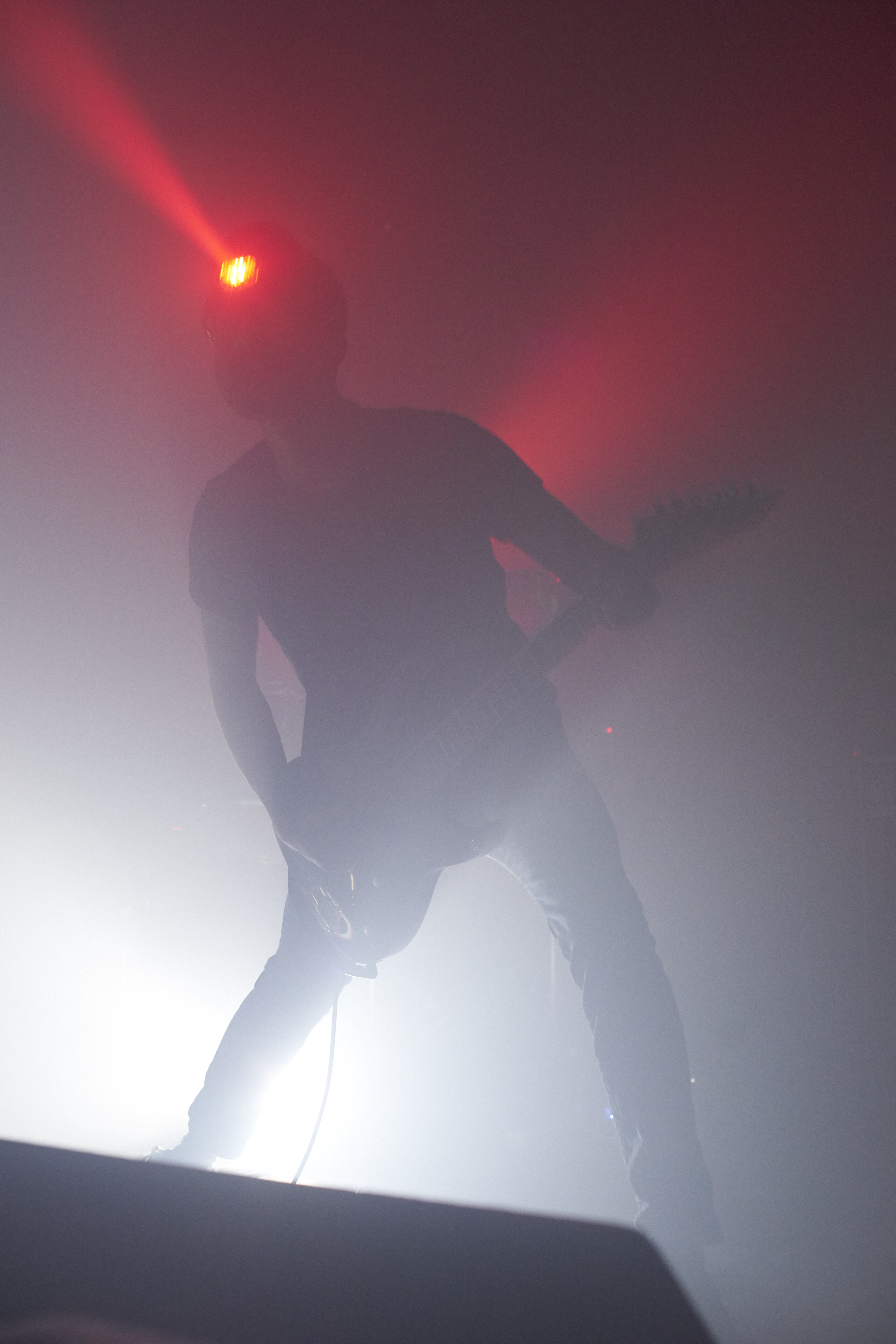 Celeste at Droneberg Doom Festival, Berlin-Kreuzberg SO36, 16.04.2015 Festivalsommer This photo was created with the support of donations to Wikimedia Deutschland in the context of the CPB project "Festival Summer". Personality rights warning Although this work is freely licensed or in the public domain, the person(s) shown may have rights that legally restrict certain re-uses unless those depicted consent to such uses. In these cases, a model release or other evidence of consent could protect you from infringement claims.